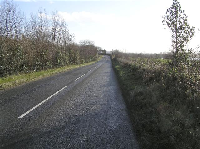 Lattone Road (B52) Heading south at Greaghaphort in County Fermanagh